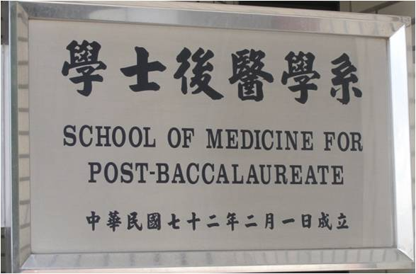 The Faculty of Medicine for Post-Baccalaureate, Kaohsiung Medical University.